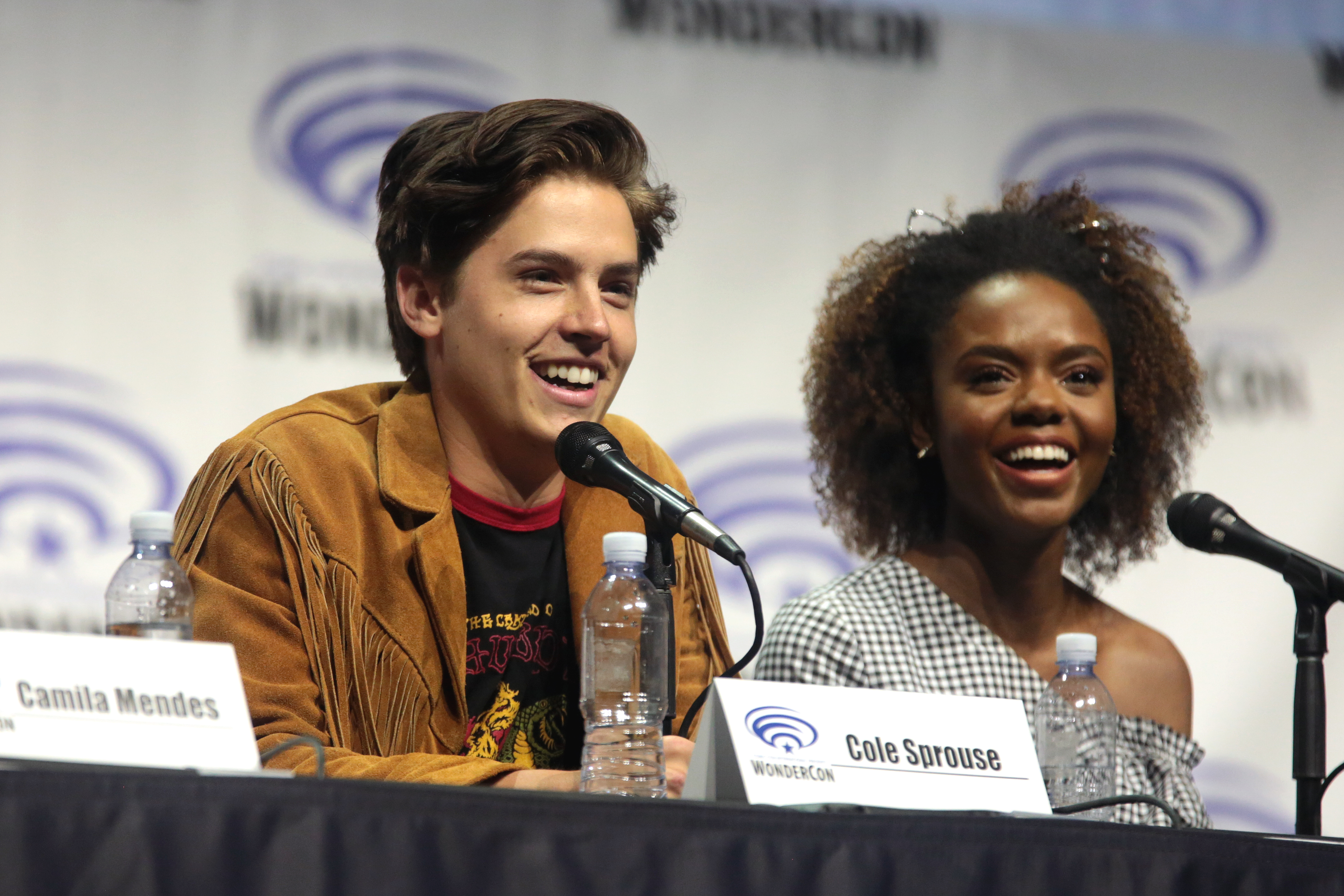 Cole Sprouse and Ashleigh Murray speaking at the 2017 WonderCon, for "Riverdale", at the Anaheim Convention Center in Anaheim, California.